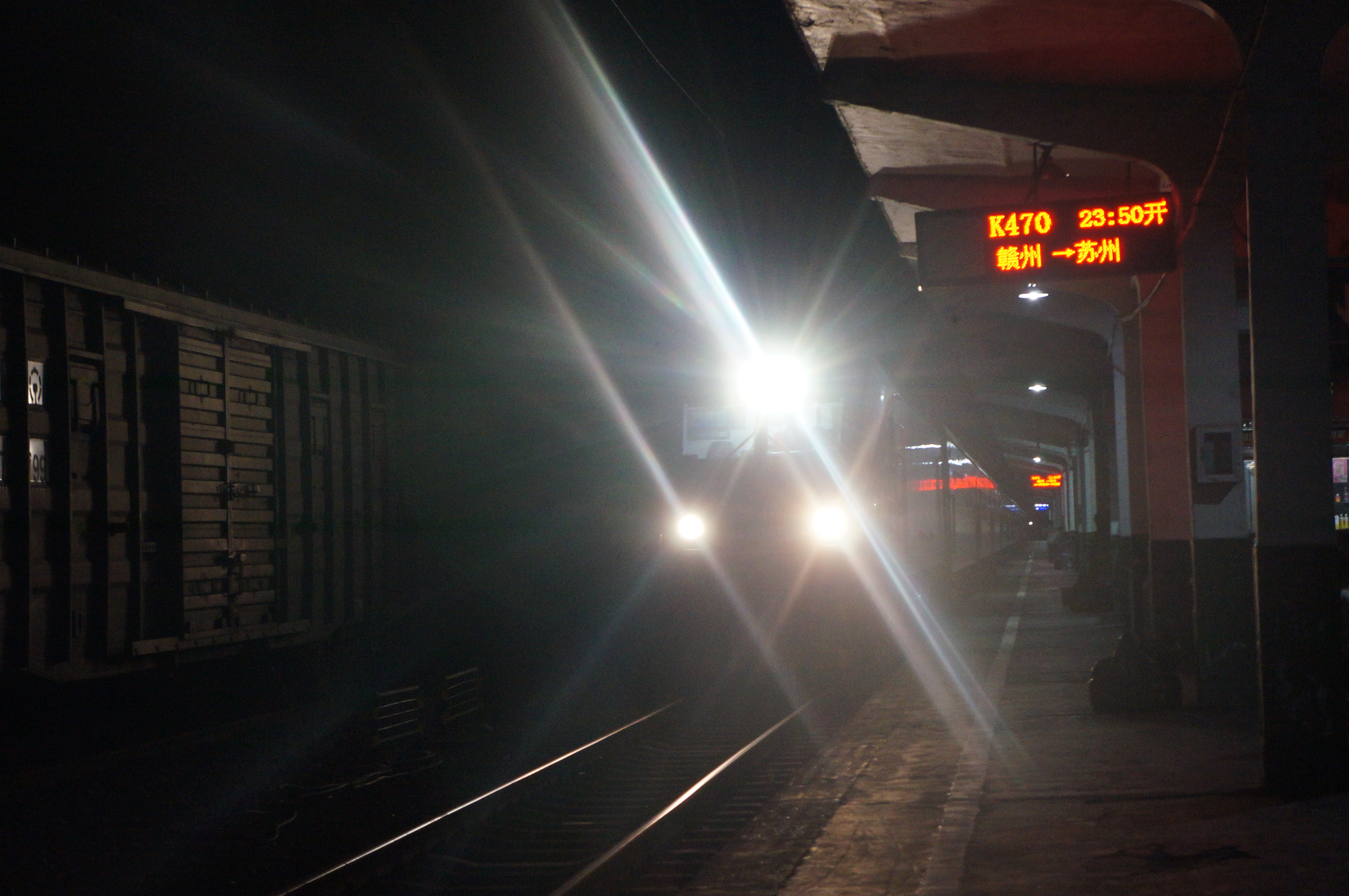 201708 K470 enters into Yingtan Station